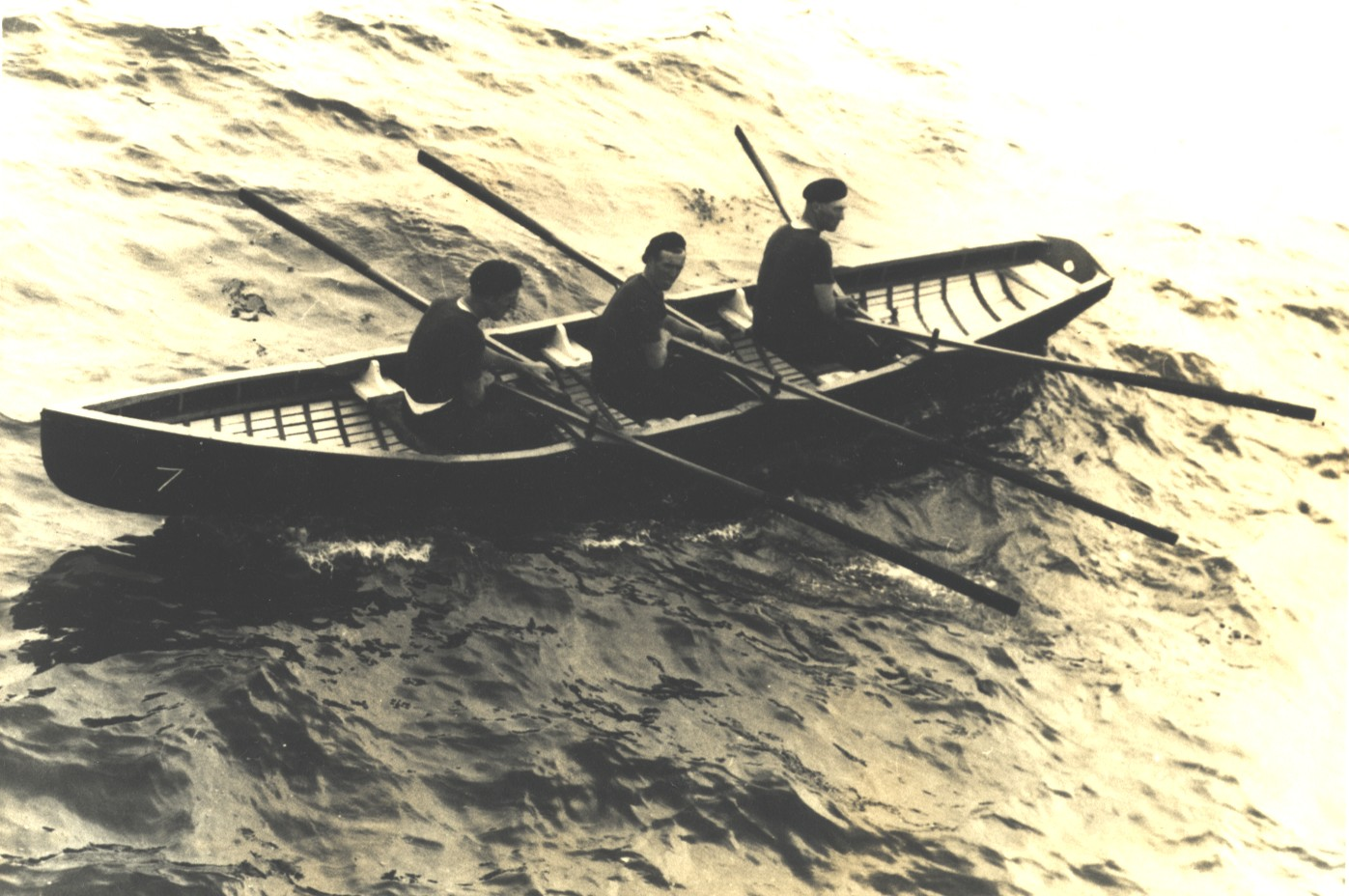 Seoighe/Joyce cousins rowing after winning the All Ireland rowing championship at salthill Galway west of Ireland